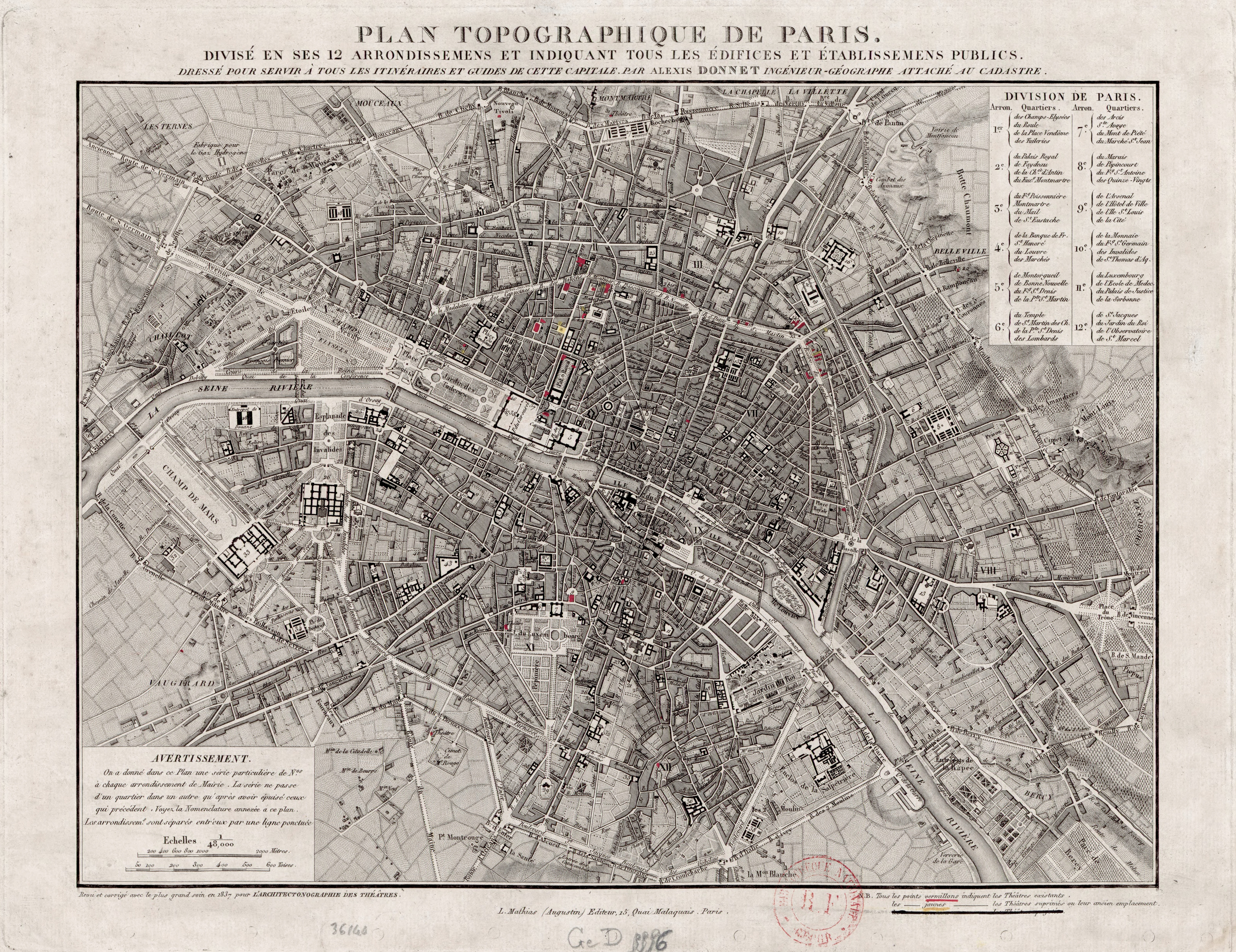 Map of Paris, showing the locations of then existing theatres in red and former theatres in yellow, meant to be included with the plates volume of the 1837 edition of Alexis Donnet's Architectonographie des théâtres.... Théâtres de Paris, construits jusqu'en 1820, as continued by Jacques-Auguste Kaufmann. See Category:Architectonographie des théâtres de Paris.